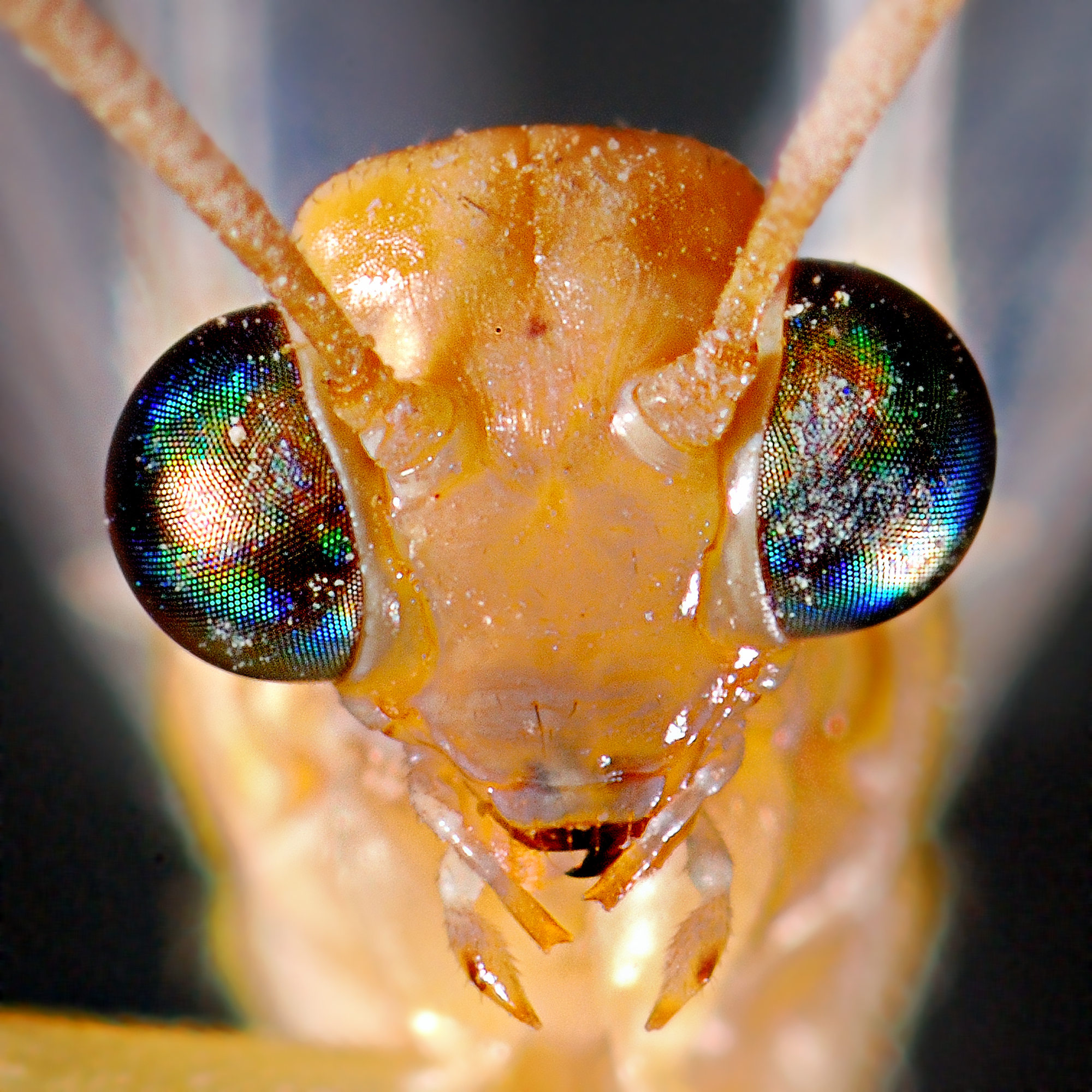 100% Crop This is Ant Lion Nymph and has a very small eyes a little bit bigger than the ball point... approximately 1mm